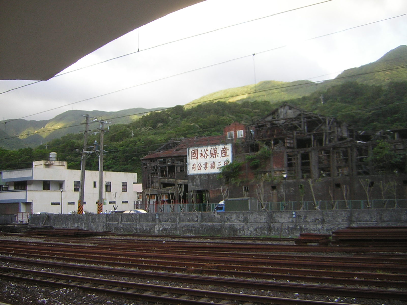 View of Rueisan Coal-selection Factory from Houtong Station of Taiwan Railway Administration.